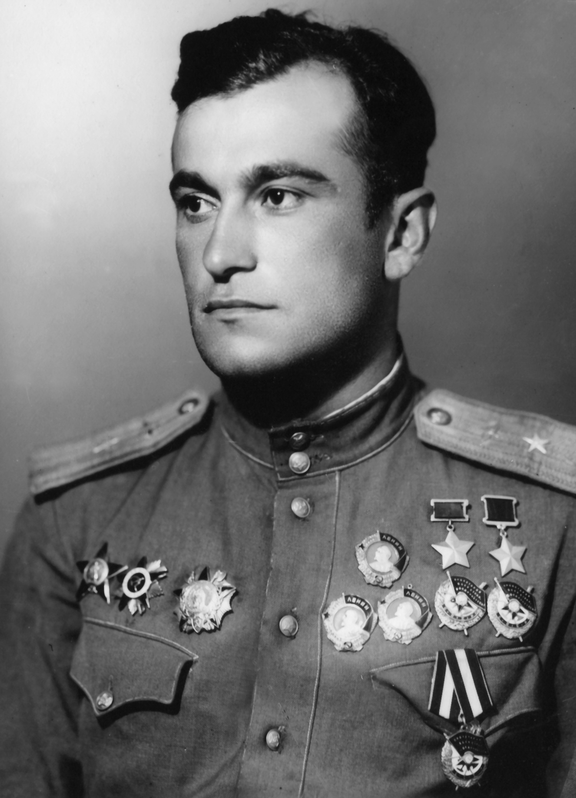 Amet-khan Sultan, twice Hero of the Soviet Union. Visual description:1945 formal postwar portrait of a major in parade dress of the Soviet Air Forces looking off into the distance. He is seen wearing his two hero of the Soviet Union gold star medals, three orders of Lenin and three orders of the red banner on one side of his chest (right side in photo, left in life) and his Order of the Red Star, Order of the Patriotic War, and Order of Aleksander Nevsky on the other side.